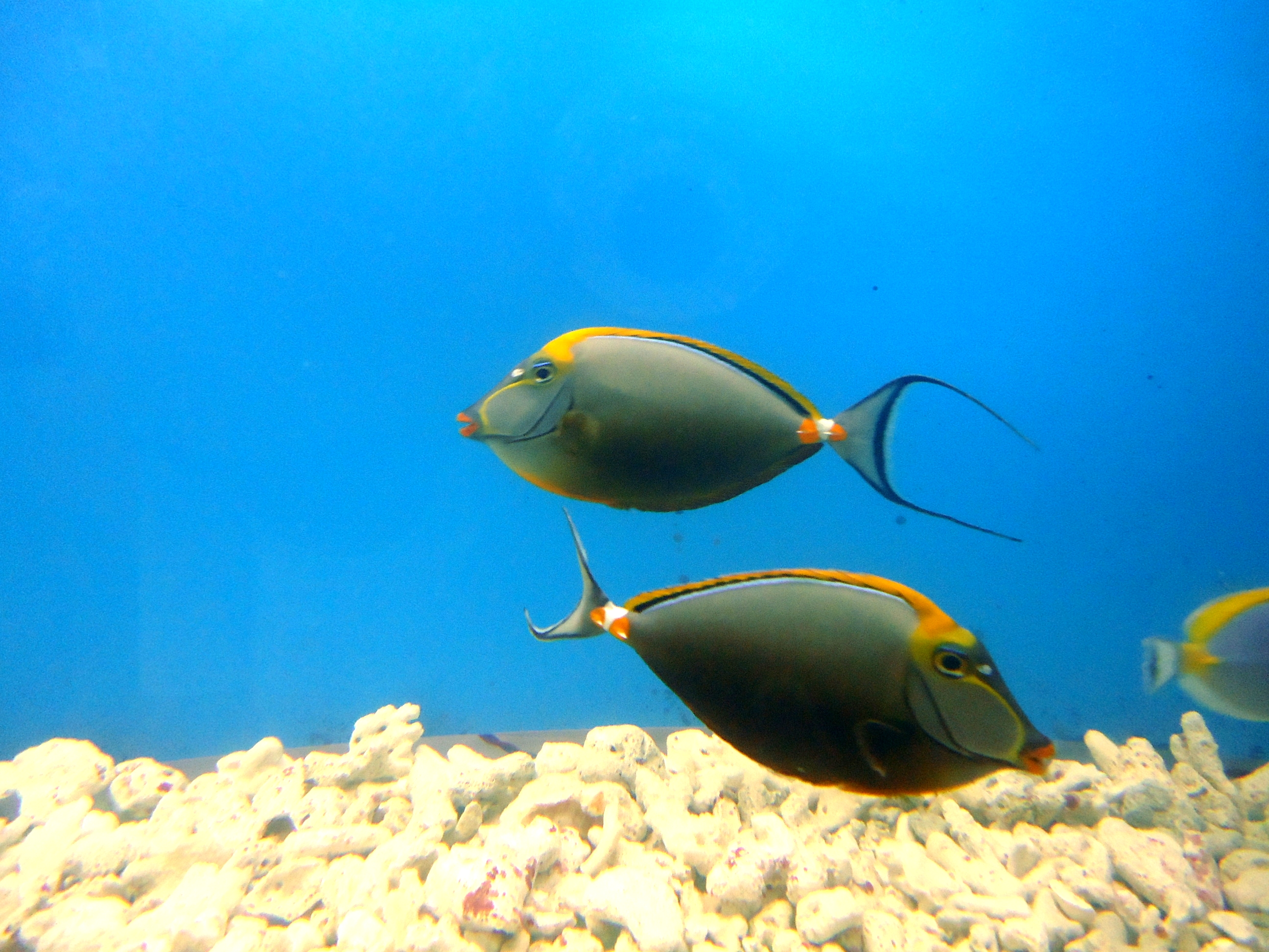 Naso lituratus or the Orangespine unicornfish or Naso tang is a tang from the Indian Ocean and the Pacific Ocean. It occasionally makes its way into the aquarium trade. It grows to a size of 46 cm in length.